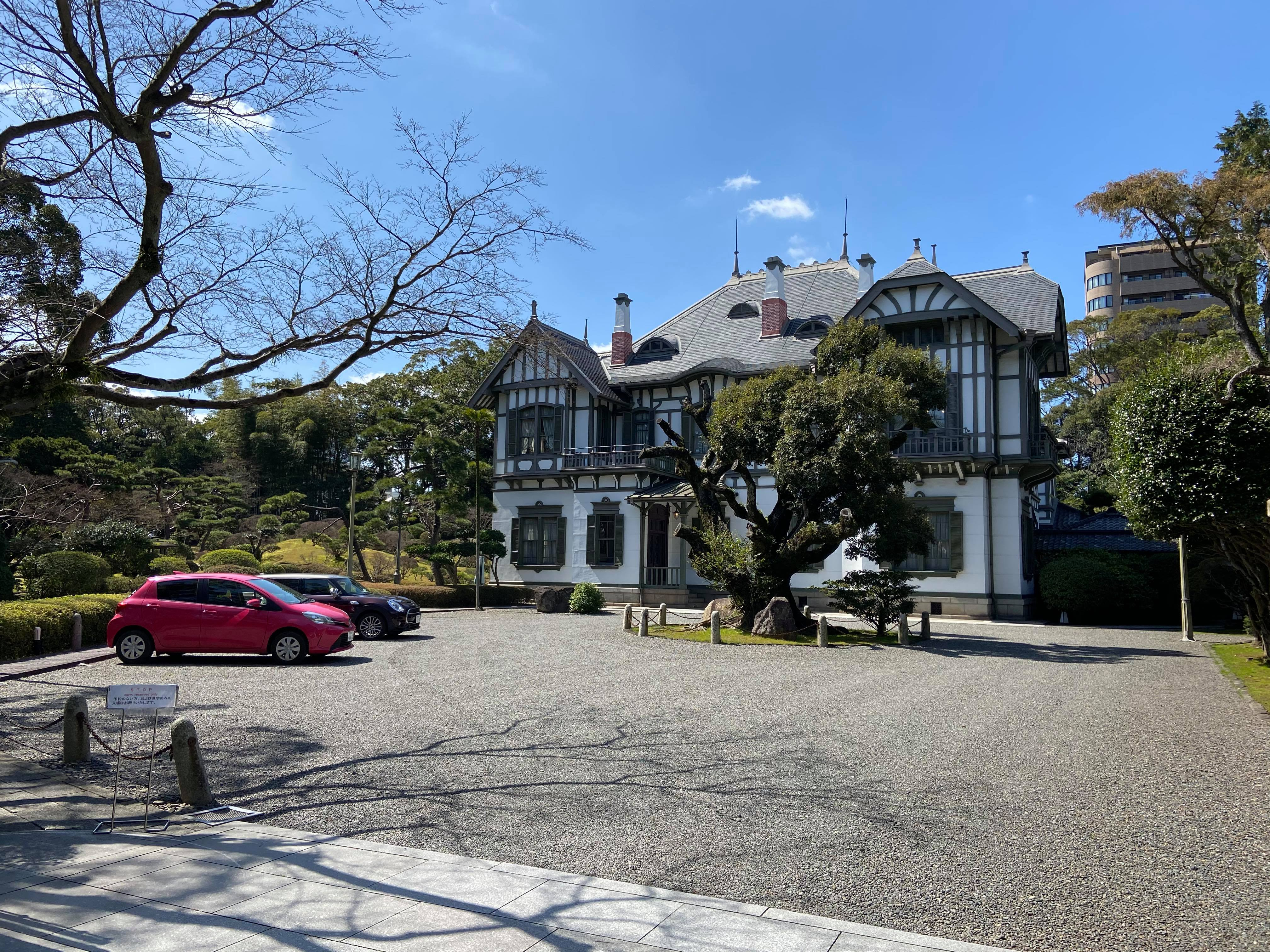 From the front gate